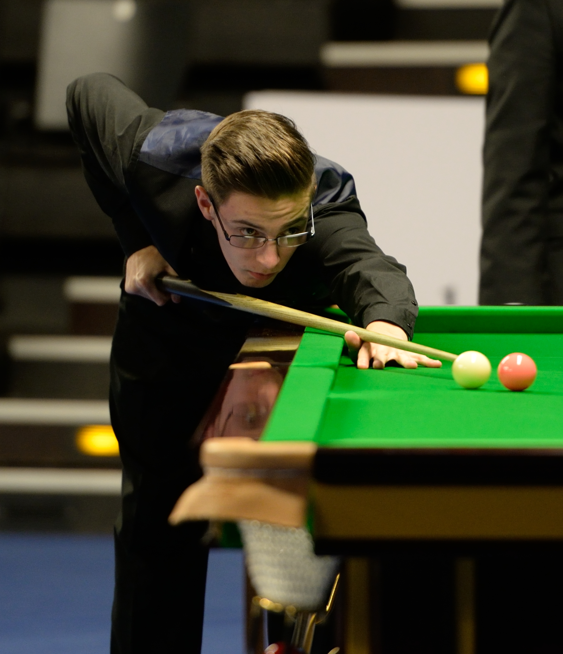 Picture taken in Berlin during the Snooker German Masters in 2015. Ashley Carty.